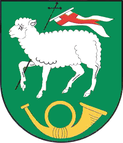 Coat of Arms of Schöps First upload in de-wp: Hermannthomas (10:17, 12. Aug. 2005)